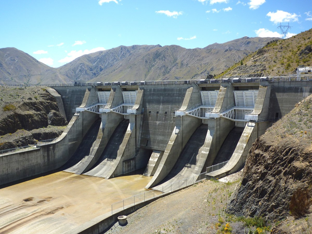 Spillway of the Benmore hydroelectric dam, South Island, New Zealand.